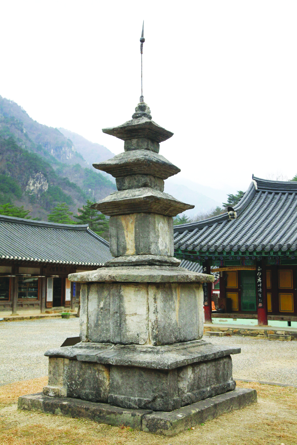 Samhwa temple in South Korea